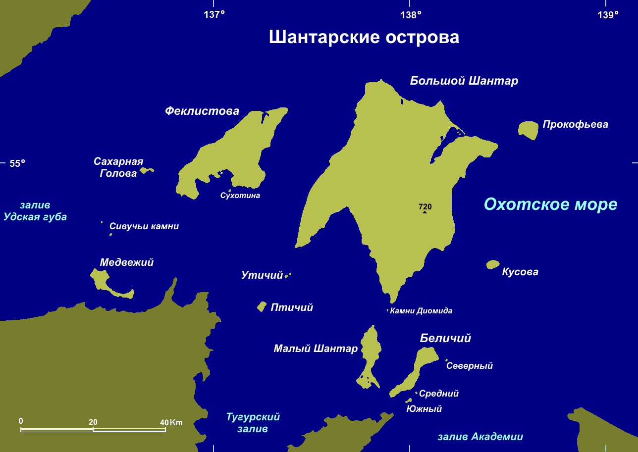 color map of island group